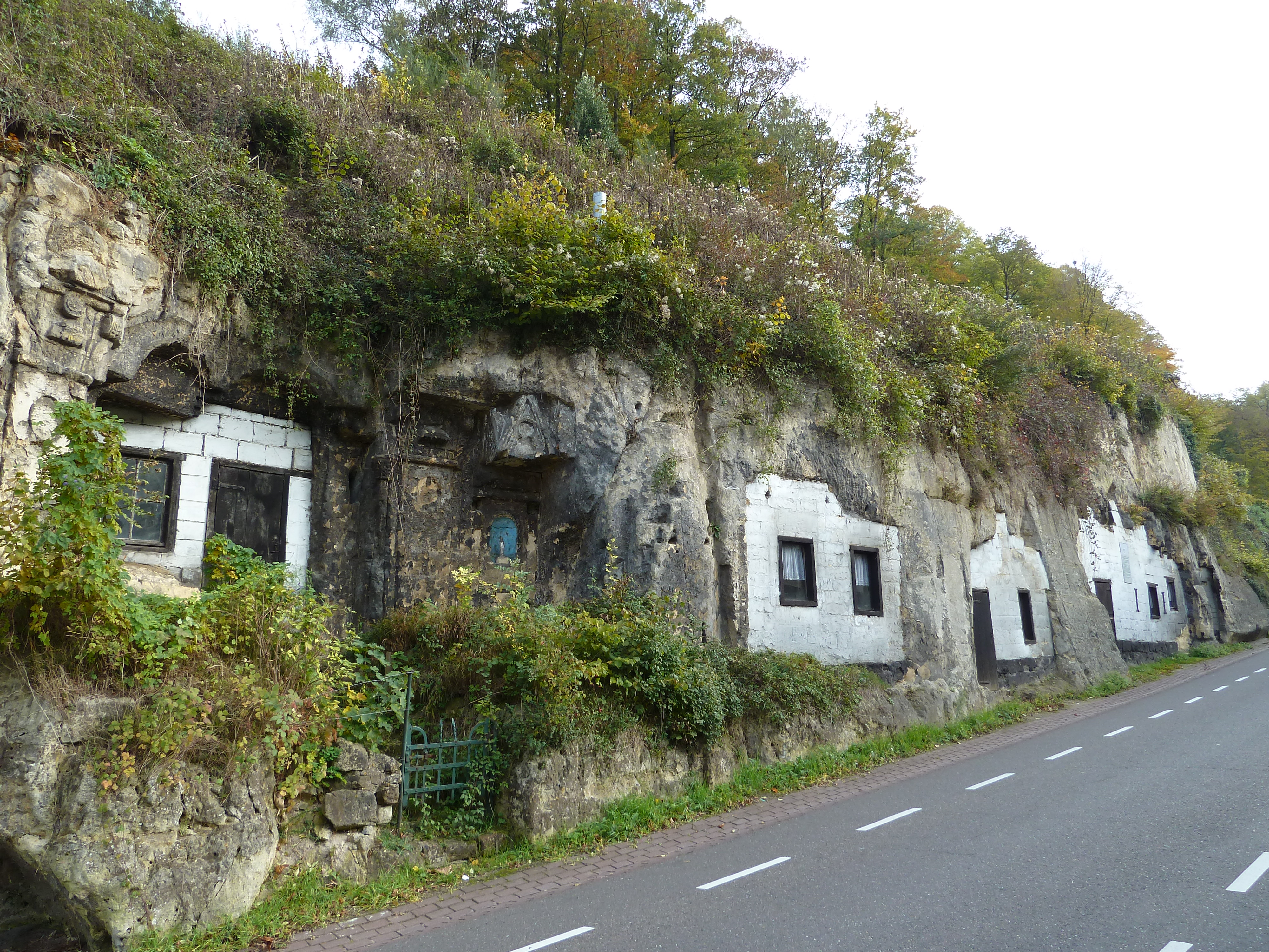 Cave houses, Geulhem, Limburg, the Netherlands